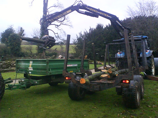 A (New Holland) tractor with a fowarder/logging trailer removing timber. Close to the 'Bakehouse', the loose timber is lifted onto a waiting trailer by the operator of the forwarder. This was mostly sycamore limbs.